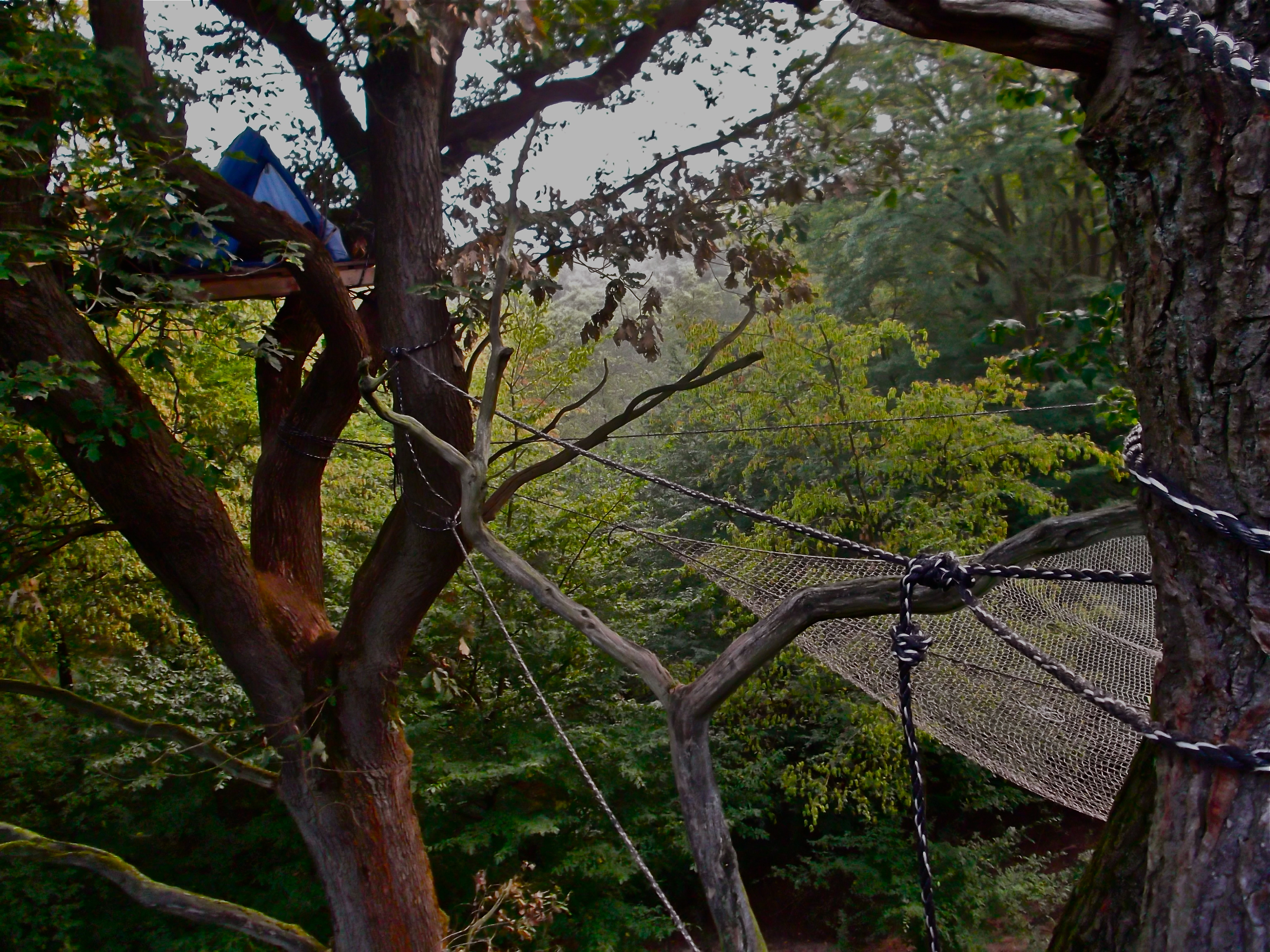 Protest camp and protest activities in Hambacher Forest that is being destroyed by the coal mining cooperation RWE in order to get to lignite brown coal deposits